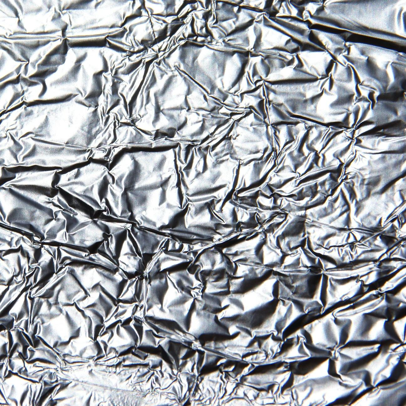 Pure aluminium foil. Original size in cm: 5 x 5